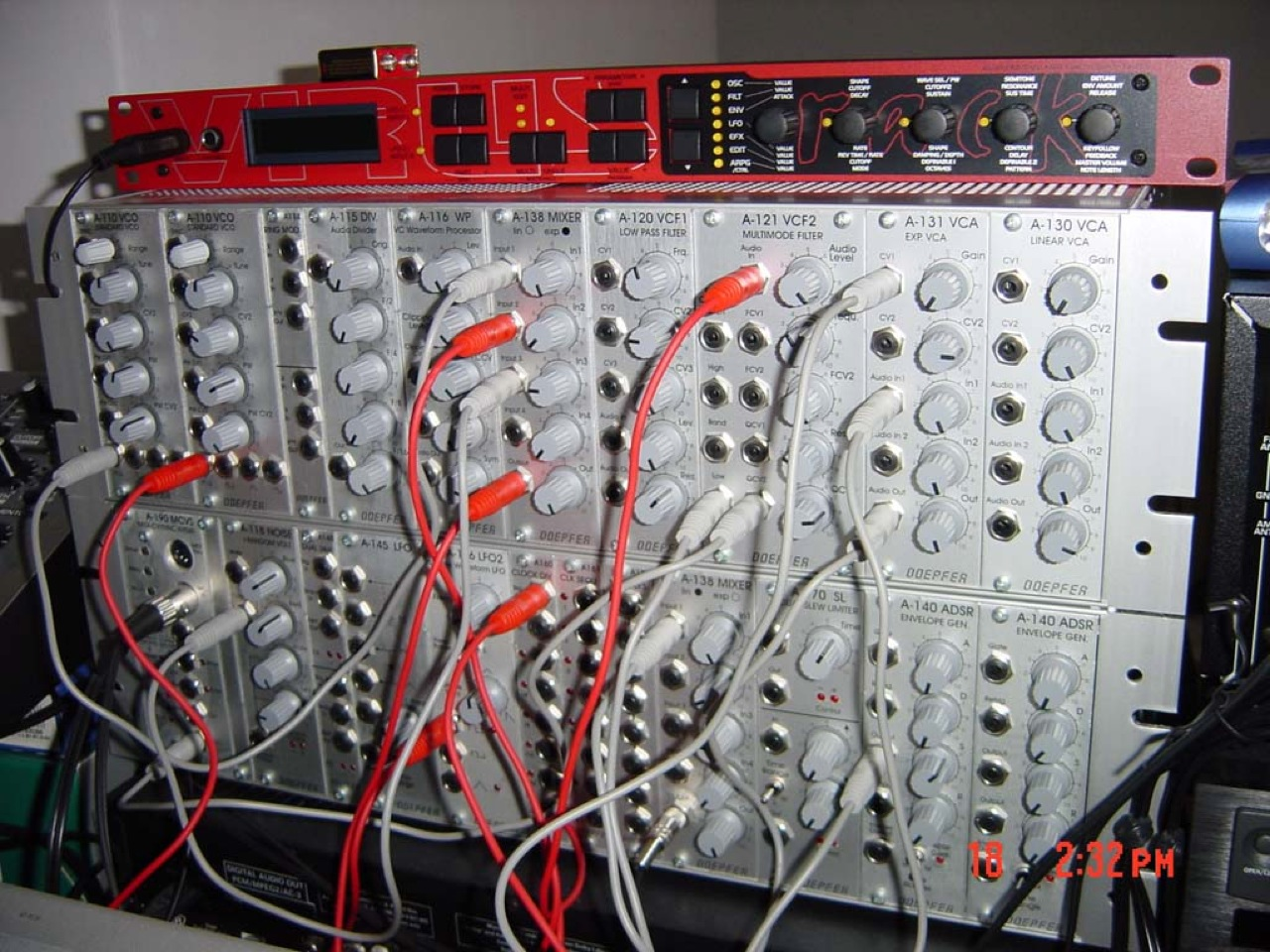 An Access Virus rack and a Doepfer A-100 synthesizers